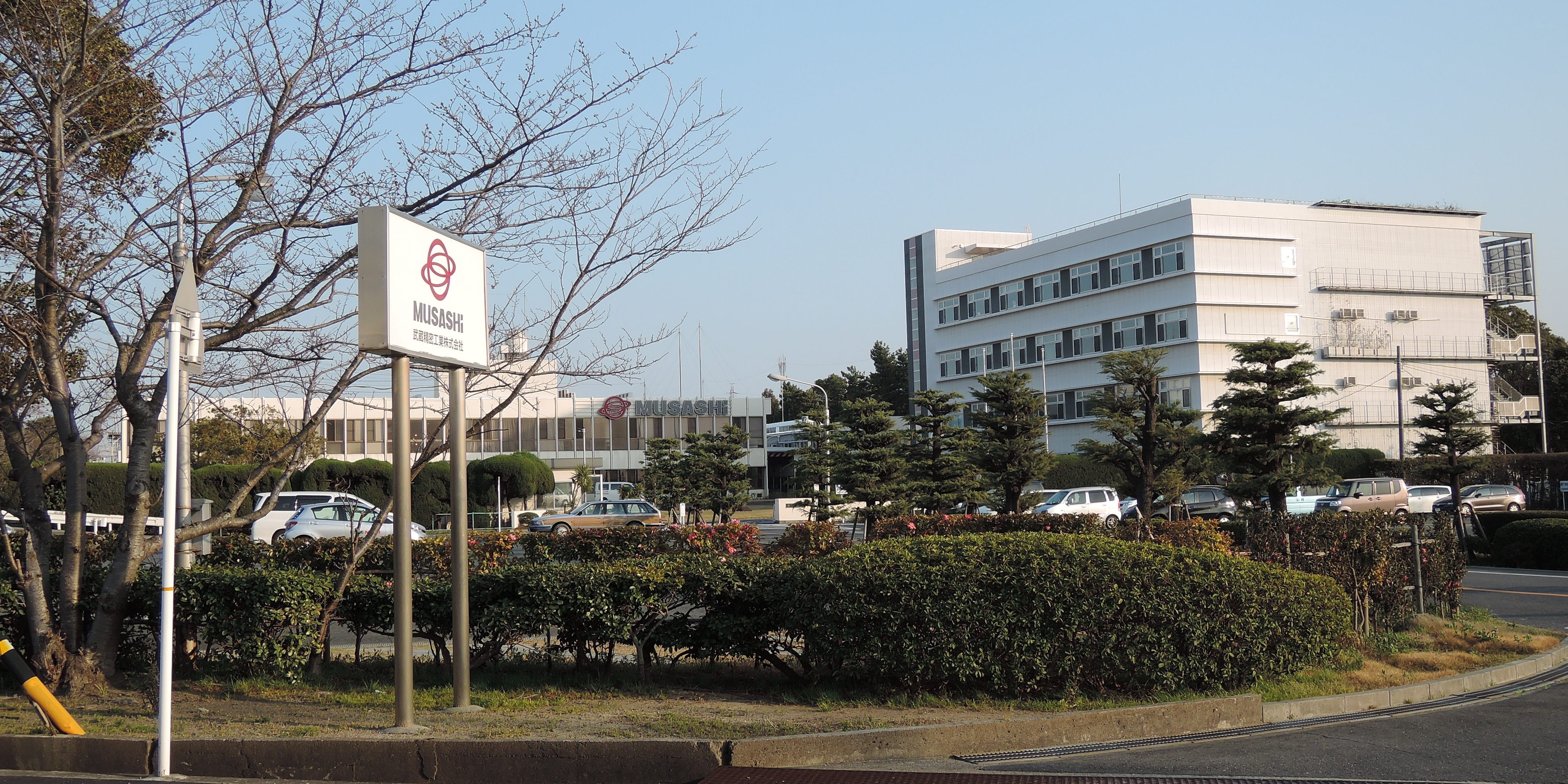 Headquarters of Musashi Seimitsu Industry Co., Ltd.,Aichi prefecture,Japan